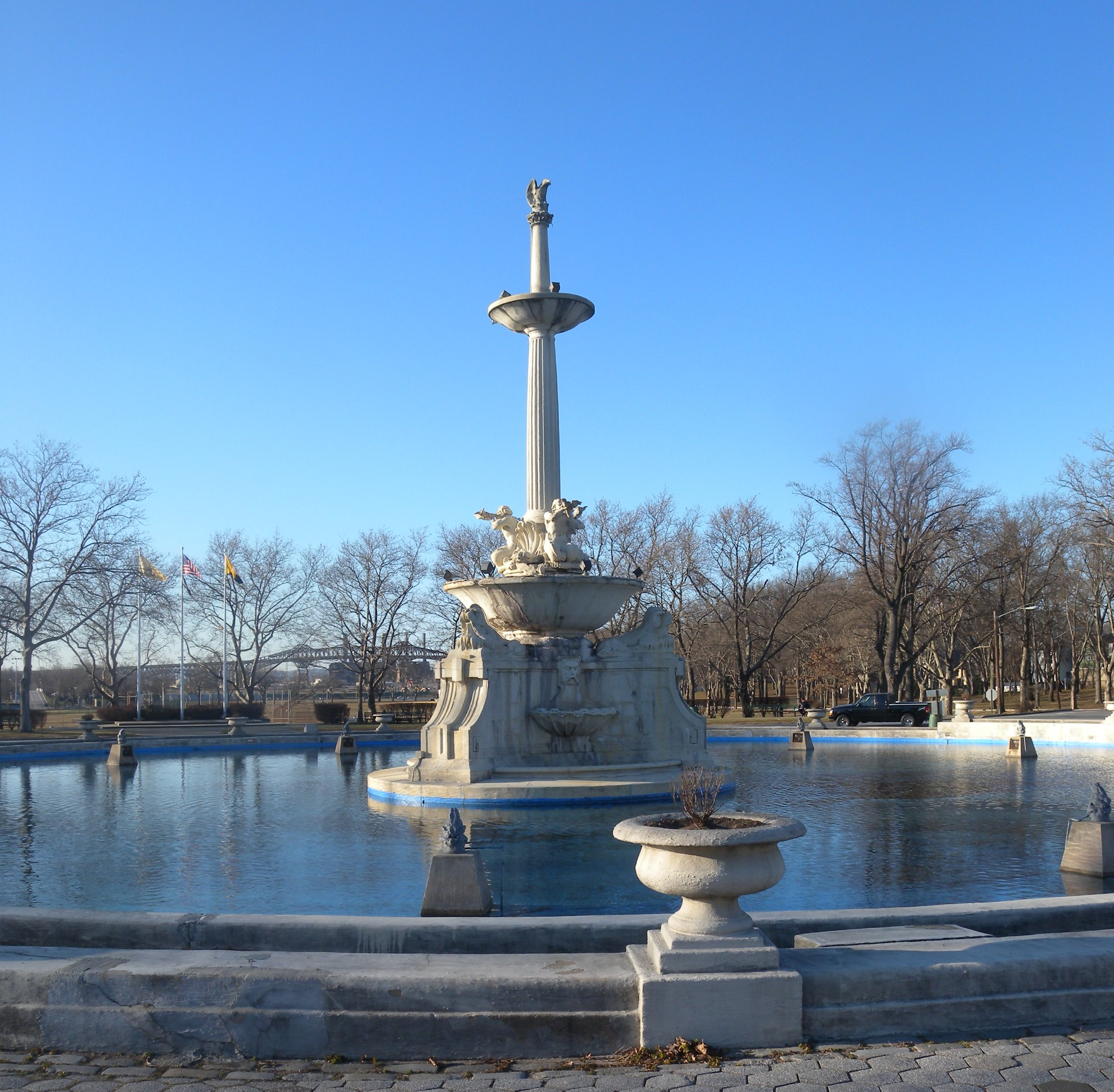 Looking north at fountain on a sunny afternoon.